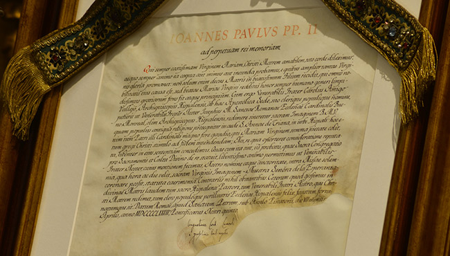 The Canonical and Legal Coronation document for the Hope of Triana, Virgin and Image granted by Pope Saint Paul the Second